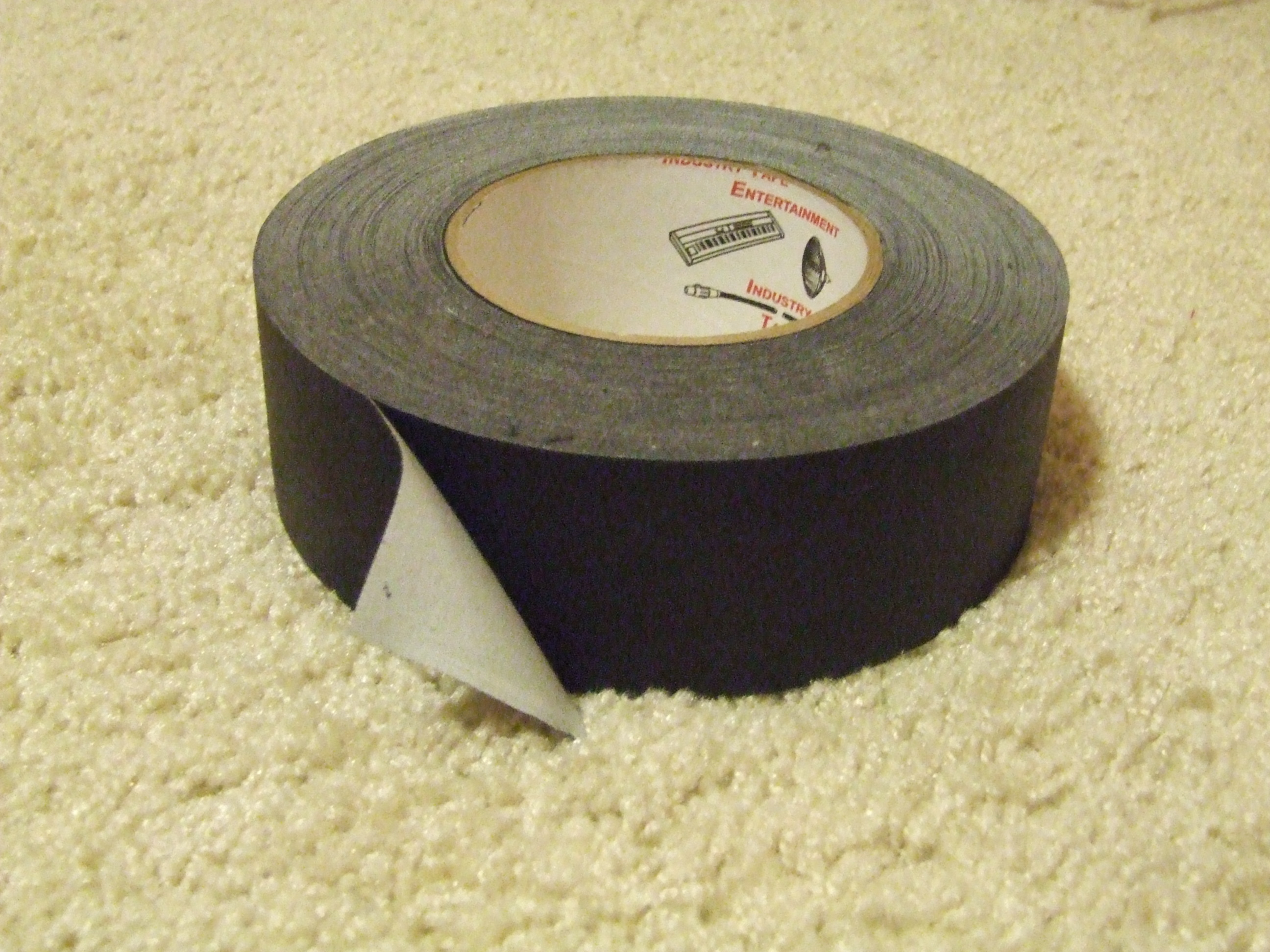 This is a roll of Gaffer tape. It was purchased at Sound Concepts Inc. The brand appears to be "Entertainment Industry Tape", the website on the inside is